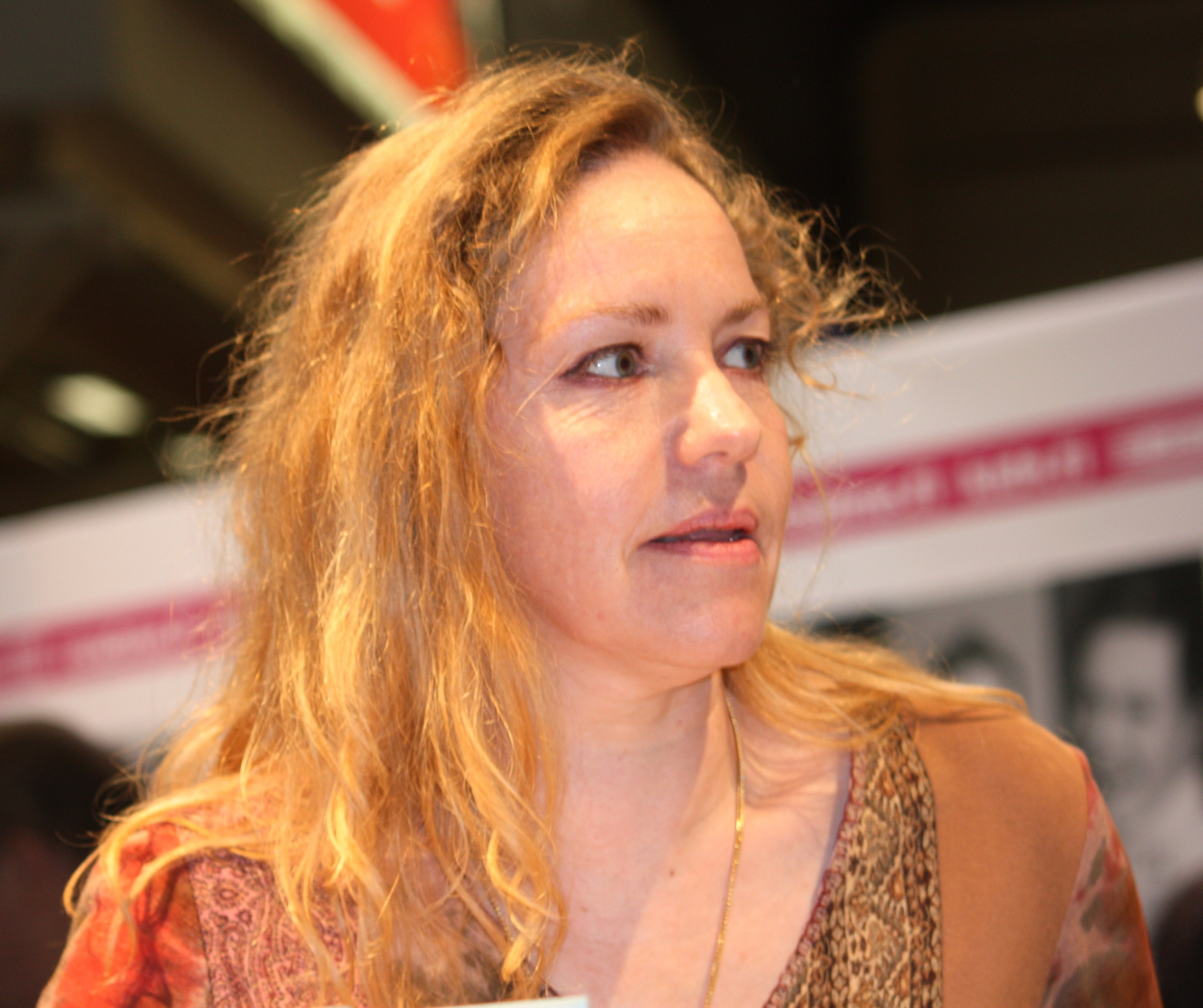 French author and psychologist Sophie Loizeau at the Helsinki Book Fair 2010